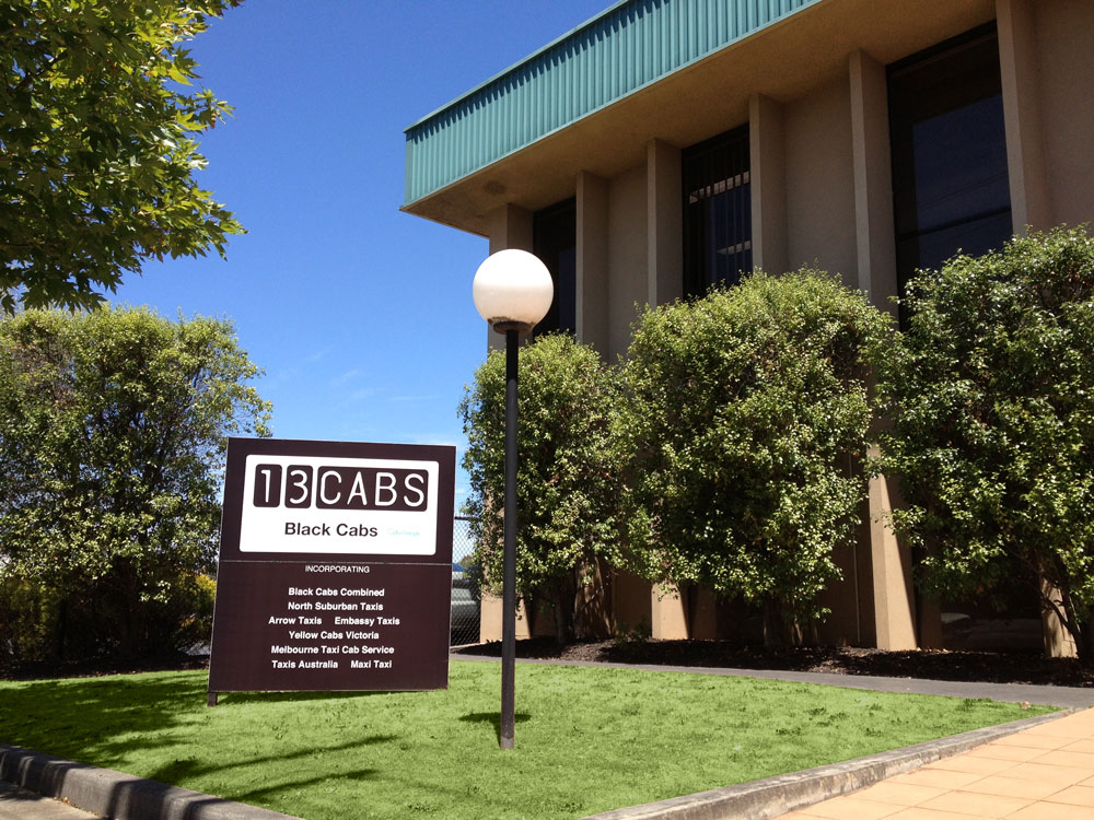 The front facade of the 13CABS Oakleigh office. Captioned As { }